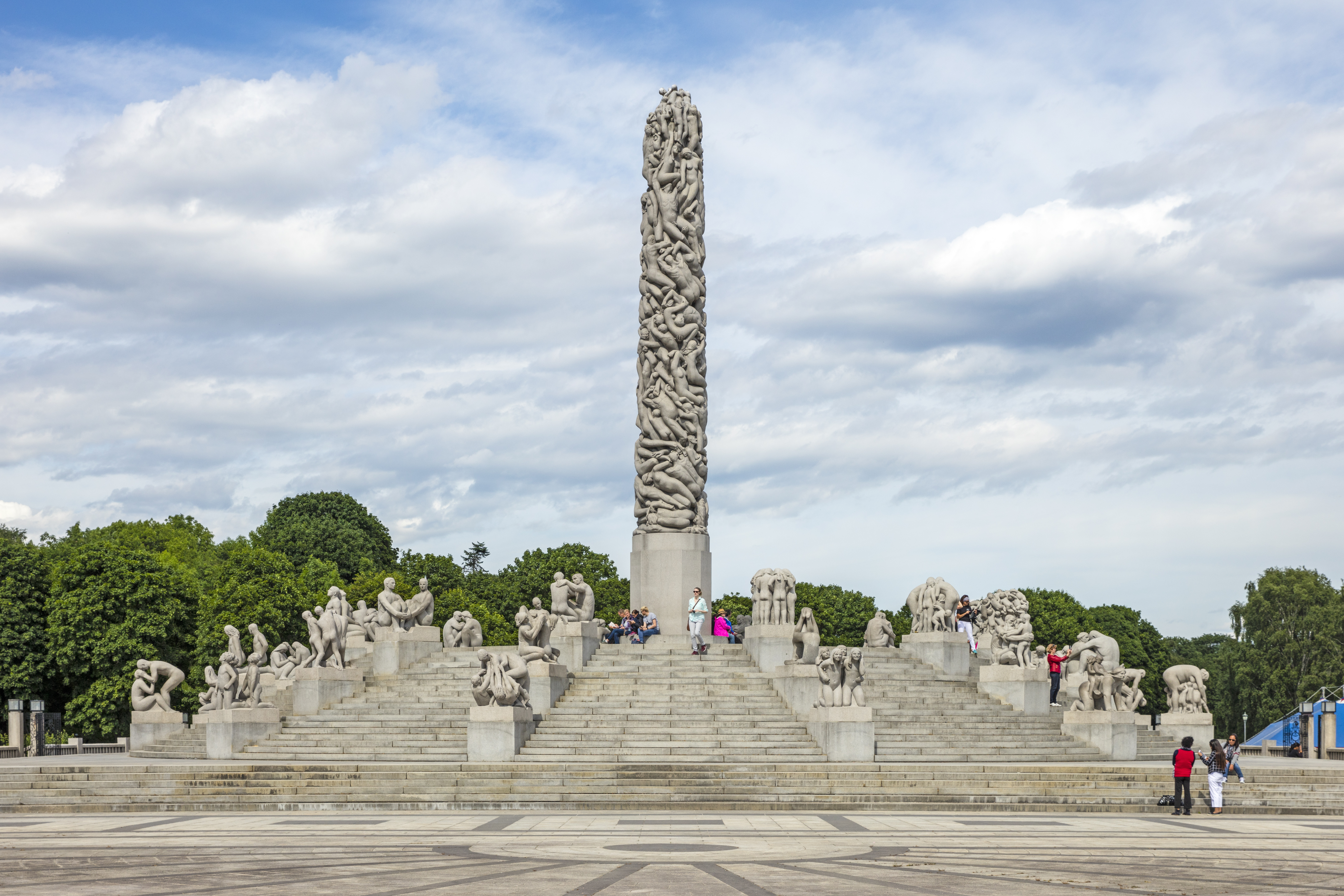 Part of the Vigeland installation in Frogner Park by sculptor Gustav Vigeland.